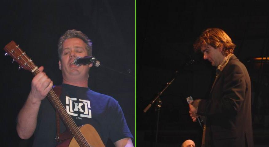 Montage file of Thomas Acda and Paul de Munnik for use on the page of the band Acda en De Munnik.